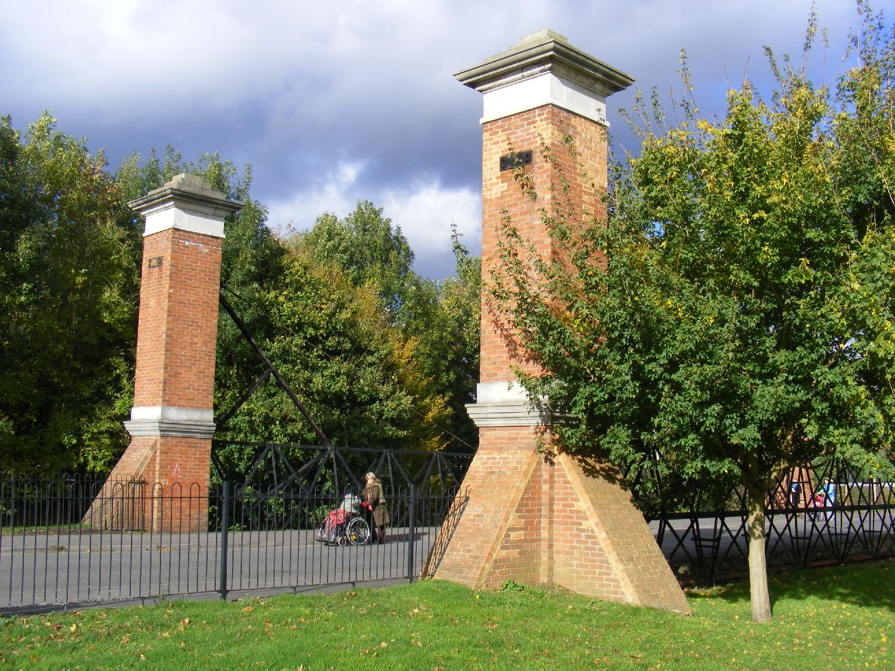 Brick piers at the entrance of the former Hurst Park racecourse, Graburn Way, East Molesey, Surrey